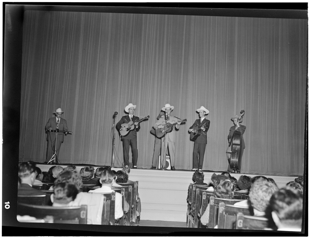 Gottlieb, William P., 1917-, photographer. [Portrait of Bob McCoy and Ernest Tubb, Carnegie Hall, New York, N.Y., Sept. 18-19, 1947] 1 negative : b&w ; 3 1/4 x 4 1/4 in. Notes: Gottlieb Collection Assignment No. 323 Purchase William P. Gottlieb Forms part of: William P. Gottlieb Collection (Library of Congress). Subjects: McCoy, Bob Tubb, Ernest, 1914- Country musicians--1940-1950. Carnegie Hall Format: Portrait photographs--1940-1950. Group portraits--1940-1950. Film negatives--1940-1950. Rights Info: Mr. Gottlieb has dedicated these works to the public domain, but rights of privacy and publicity may apply. Repository: (negative) Library of Congress, Prints & Photographs Division, Washington D.C. 20540 USA, (contact print) Library of Congress, Prints & Photographs Division, Washington D.C. 20540 USA, Part Of: William P. Gottlieb Collection (DLC) 99-401005 General information about the Gottlieb Collection is available at Persistent URL: Call Number: LC-GLB23- 1566 This work is from the William P. Gottlieb collection at the Library of Congress. Rights and restrictions. In accordance with the wishes of William Gottlieb, the photographs in this collection entered into the public domain on February 16, 2010.